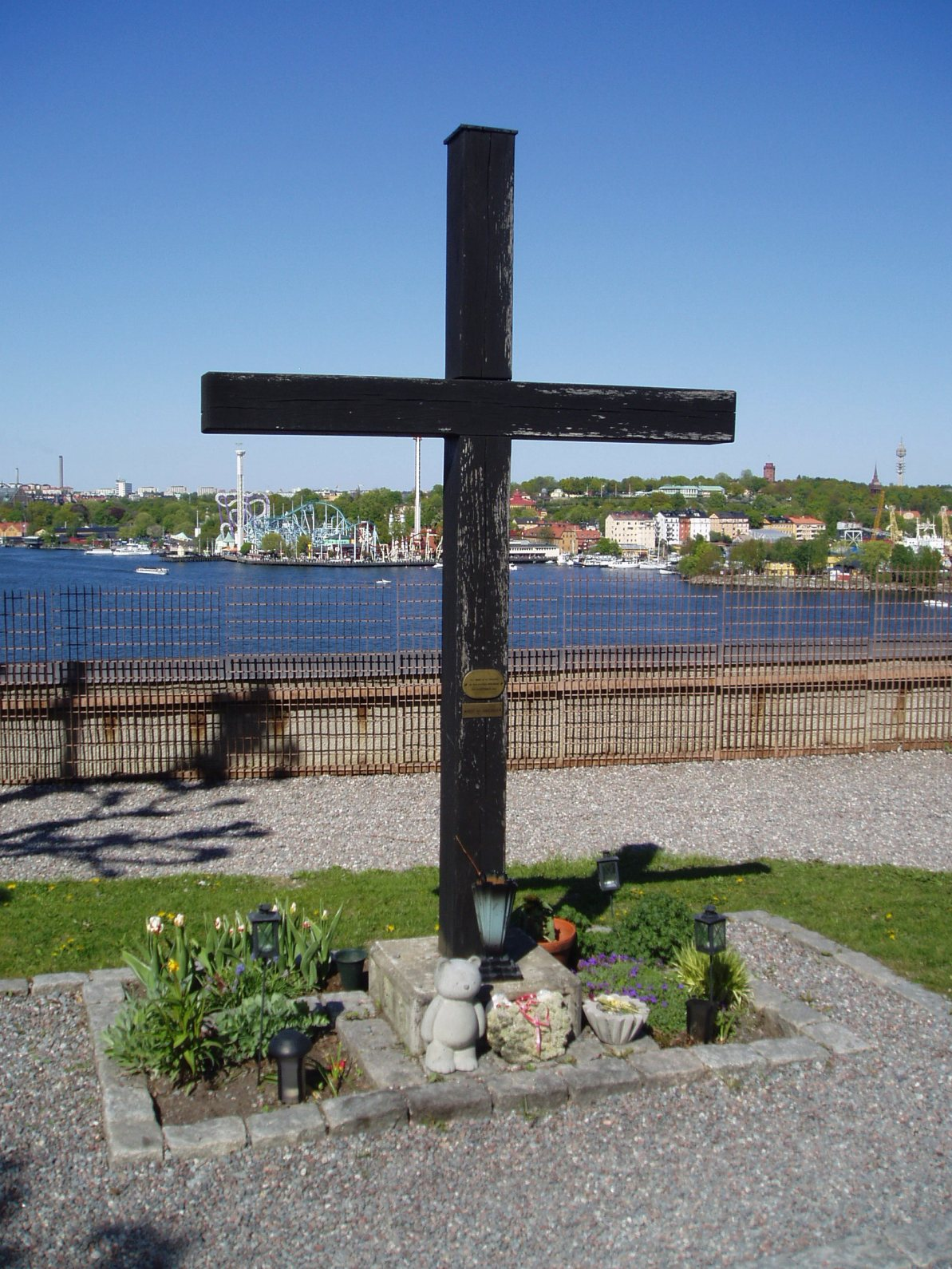 M/S Estonia, memorial, at Ersta nursing home, Södermalm, Stockholm